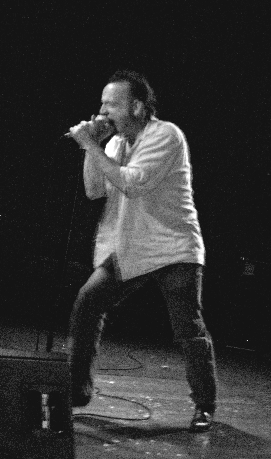 David Yow with Qui at The Knitting Factory (Hollywood)